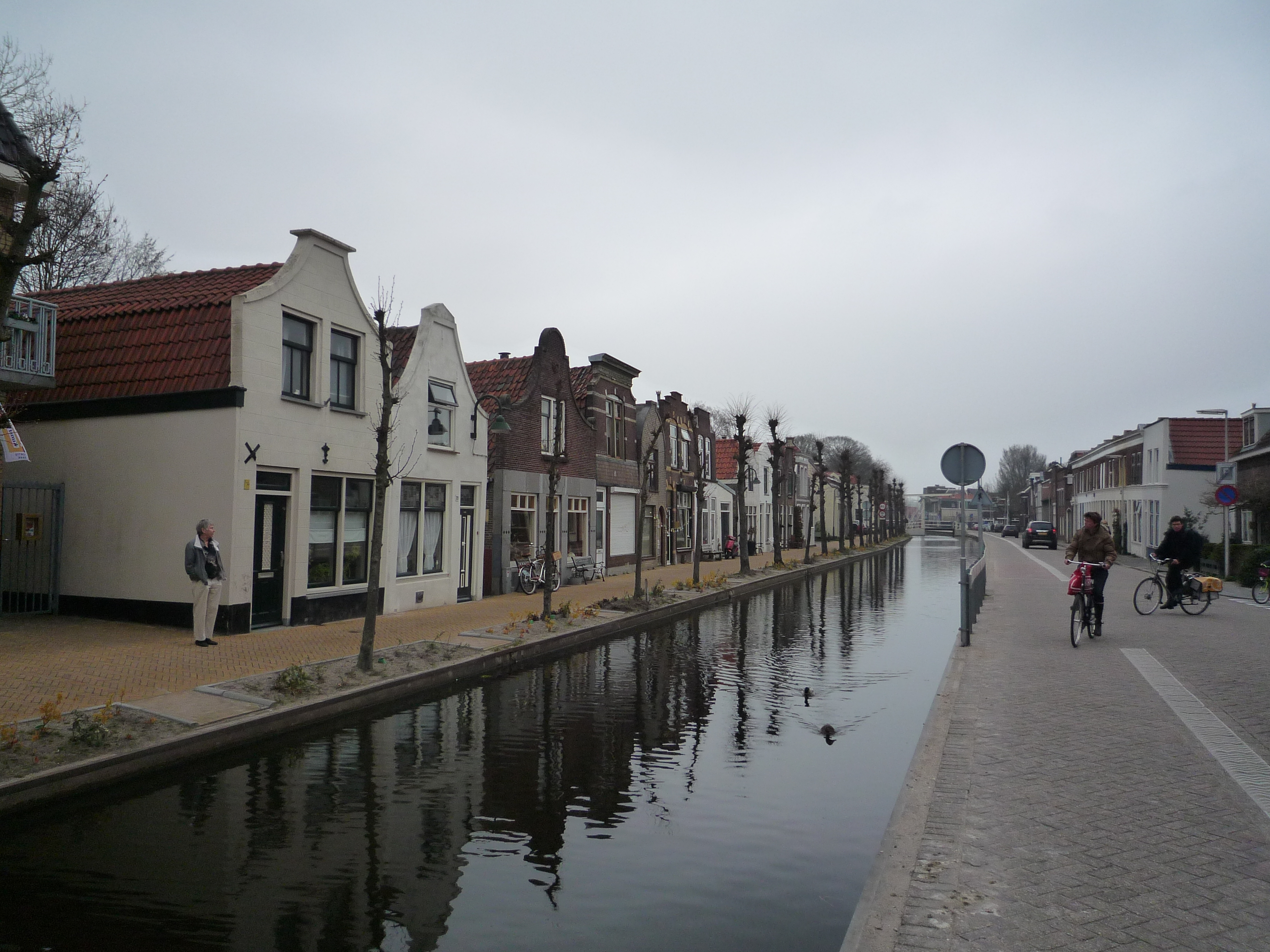 The Karnemelksloot in the Dutch city of Gouda.